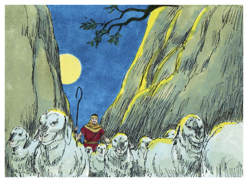 Biblical illustration of Psalms Chapter 23